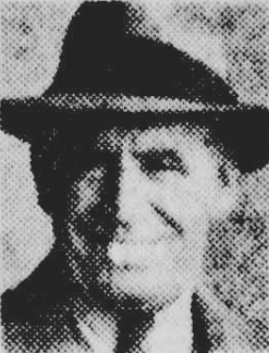 Mr. W. J. Johnson.